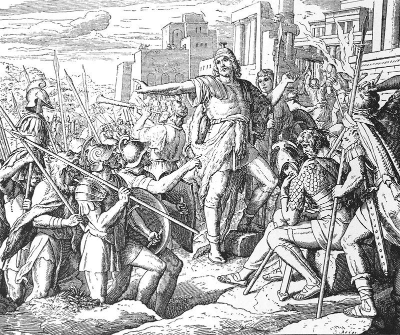 Woodcut for "Die Bibel in Bildern", 1860.